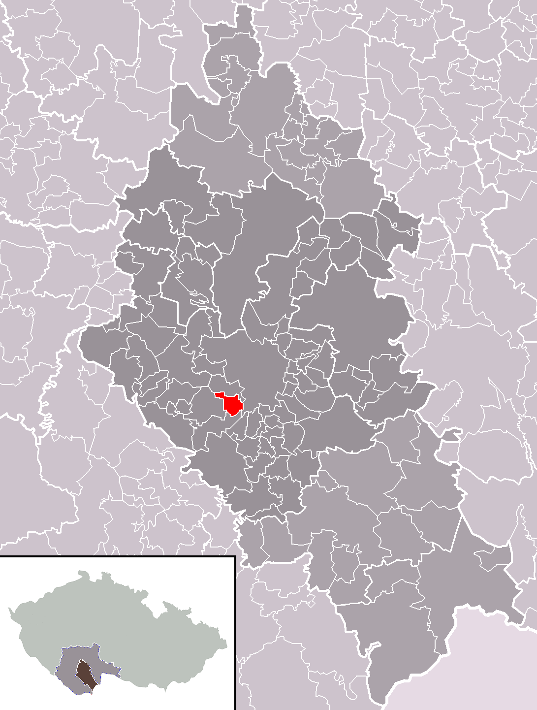 Location of Planá municipality within České Budějovice District and administrative area of České Budějovice as a Municipality with Extended Competence.